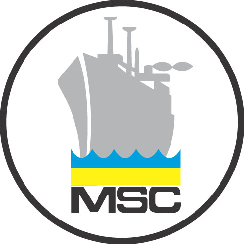 Sealift Logistics Command — Ship Logo